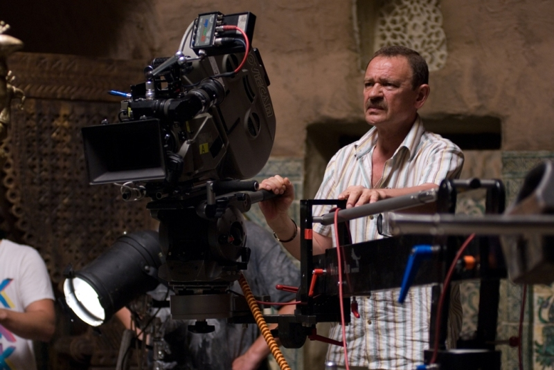 Director of photography Yuri Raysky at the filming of "The Horde"